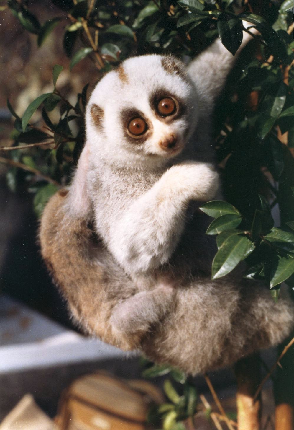 Nycticebus bengalensis from Laos with 6-week-old baby